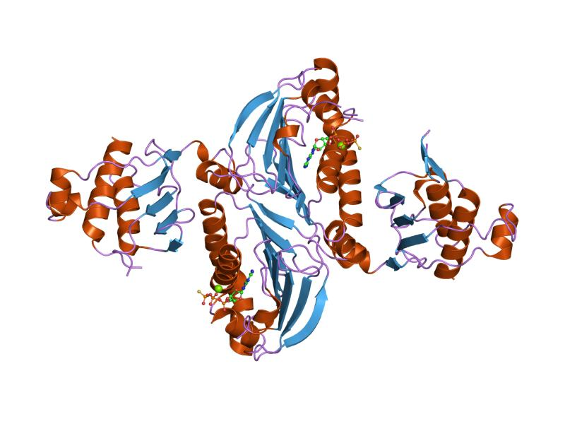 Cartoon representation of the molecular structure of protein registered with 1h7u code.